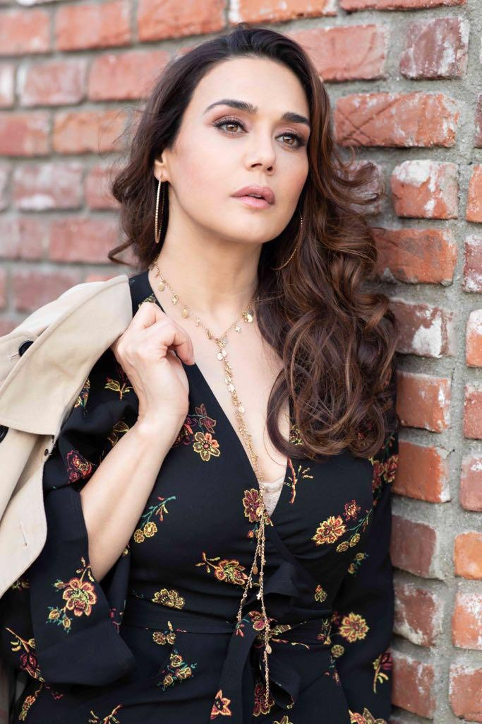 Preity Zinta, Los Angeles, Portfolio, Fashion, Photography